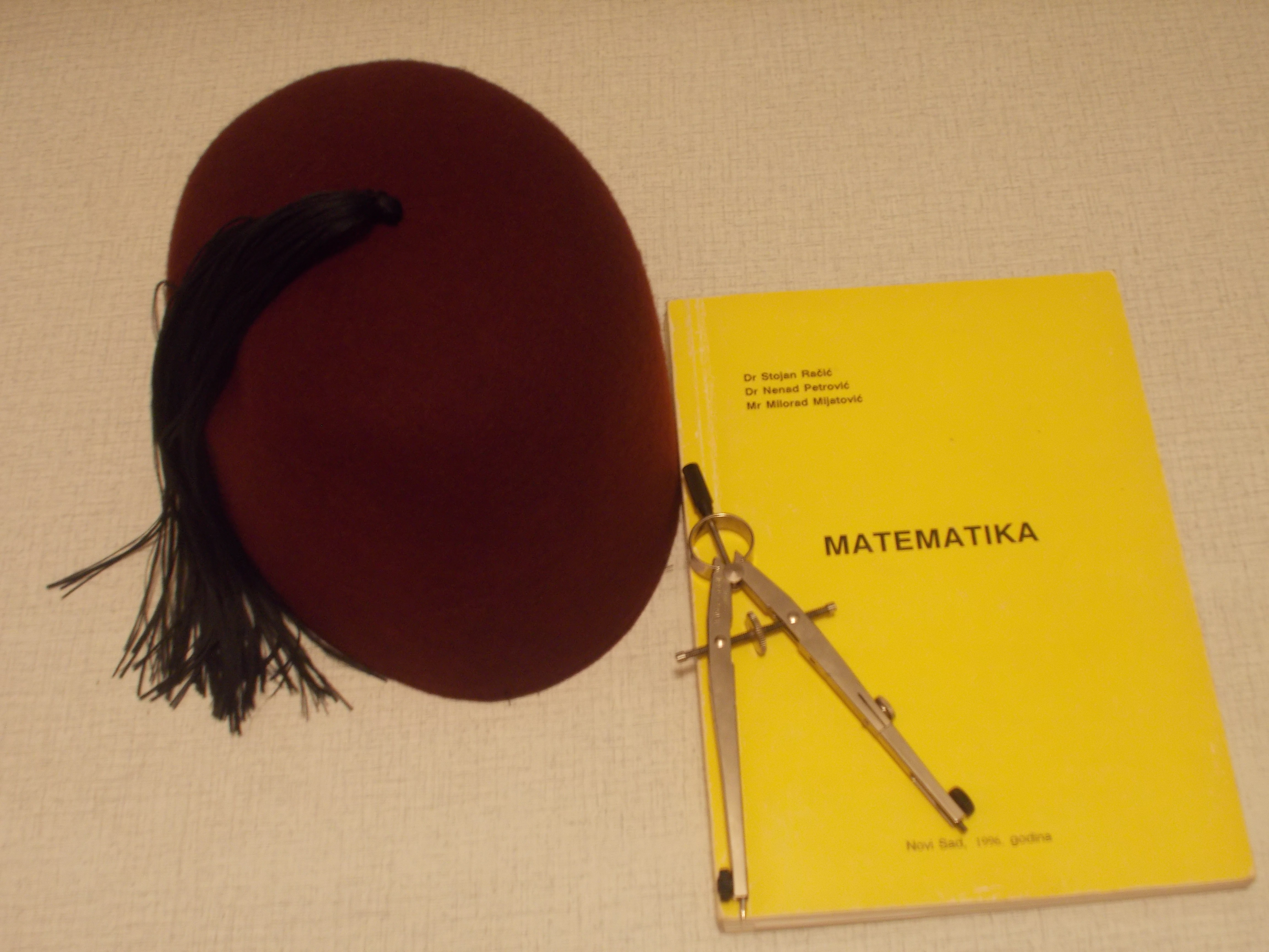 Fez